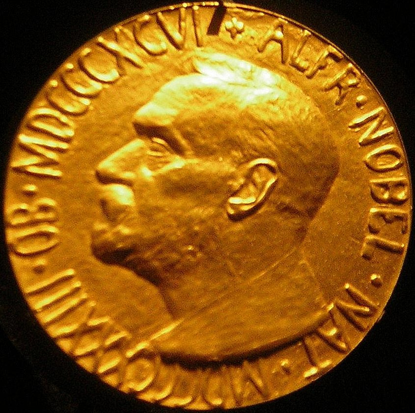 1933 Nobel Peace Prize awarded to Norman Angell on exhibit to the public at the Imperial War Museum, London, England